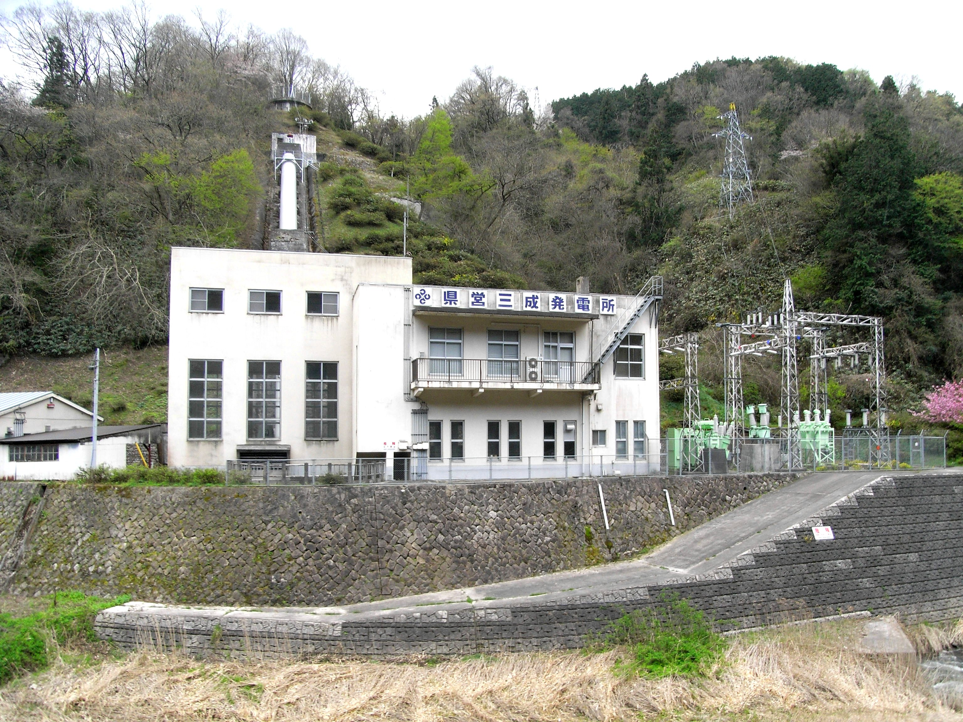 Minari power station(Hiigawa river/Shimane pref./Japan)